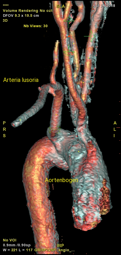 arteria lusoria, 3D reconstruction from MRI scan